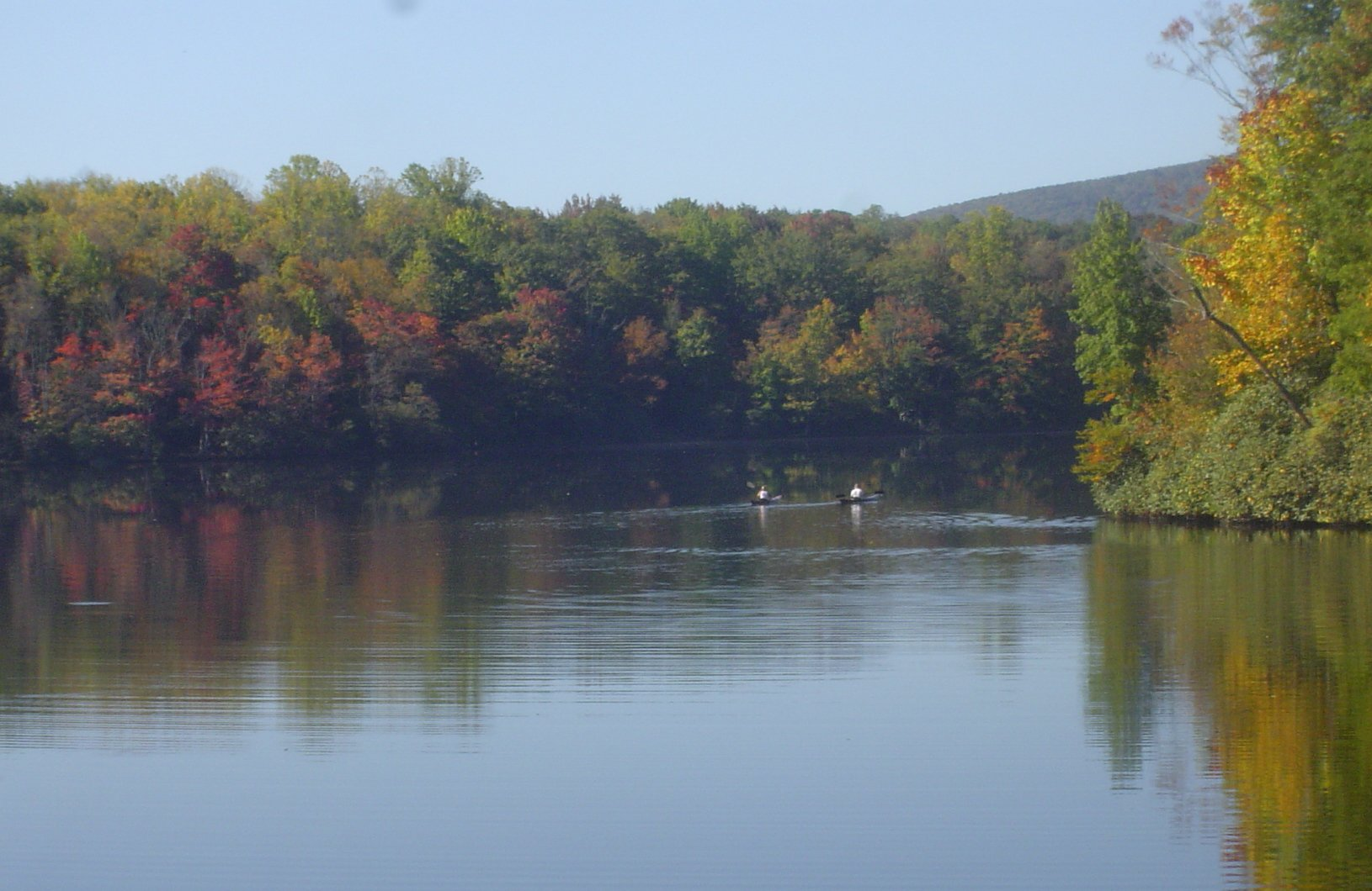 Price Lake in Julian Price Memorial Park, in North Carolina. Located on the Blue Ridge Parkway, and the Tanawha Trail part of the Mountains-to-Sea Trail.